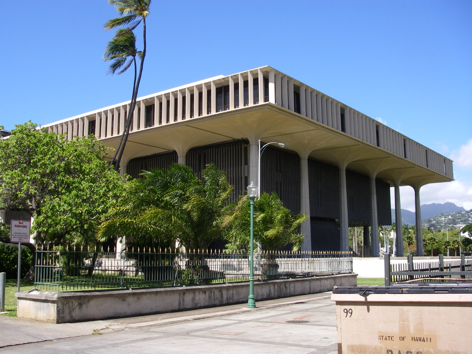 This is a view of the Hawaii state capitol from the south-east. The peaks of the Koʻolau mountains are visible in the background.